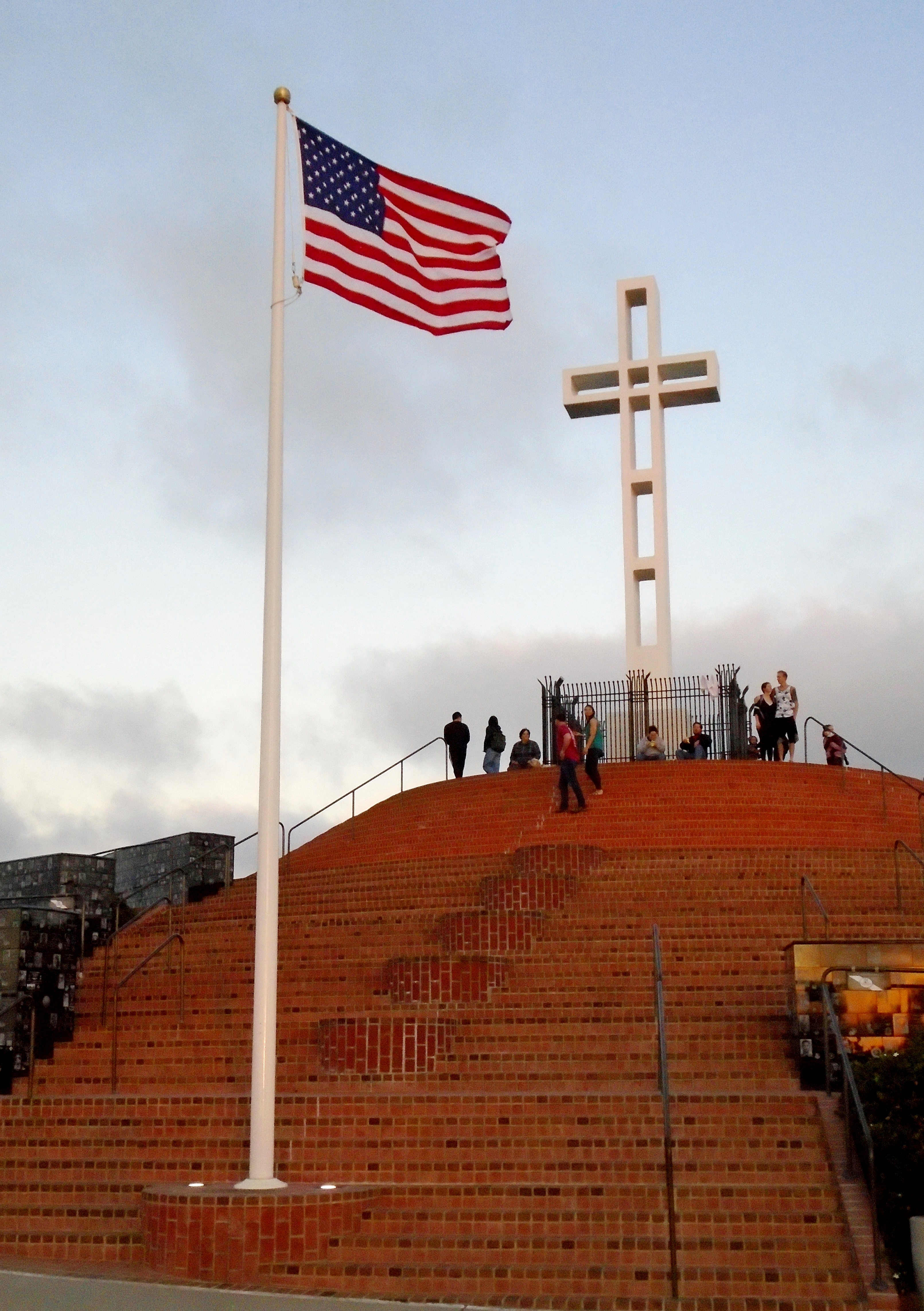 Mt. Soledad National Veterans Memorial is a prominent landmark located on top of Mount Soledad in the La Jolla neighborhood of San Diego, California. A cross was first erected on the site in 1913; the present one - the third on the site -- dates from 1954 and was designed by Donald Campbell; it is built of prestressed concrete and is 29 feet (8.8 m) tall (43 feet tall including the base) with a 12-foot (3.7 m) arm spread. The cross is the centerpiece of the memorial, which is privately owned but recognized by the Department of Defense.